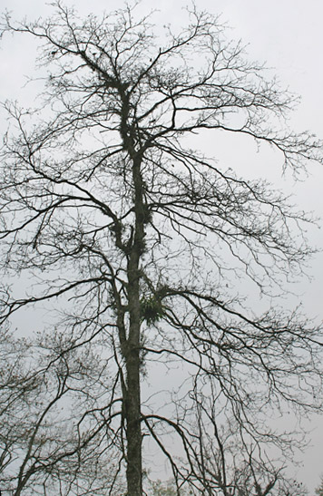 Description corrected as Terminalia bellirica at Jayanti in Buxa Tiger Reserve in Jalpaiguri district of West Bengal, India.